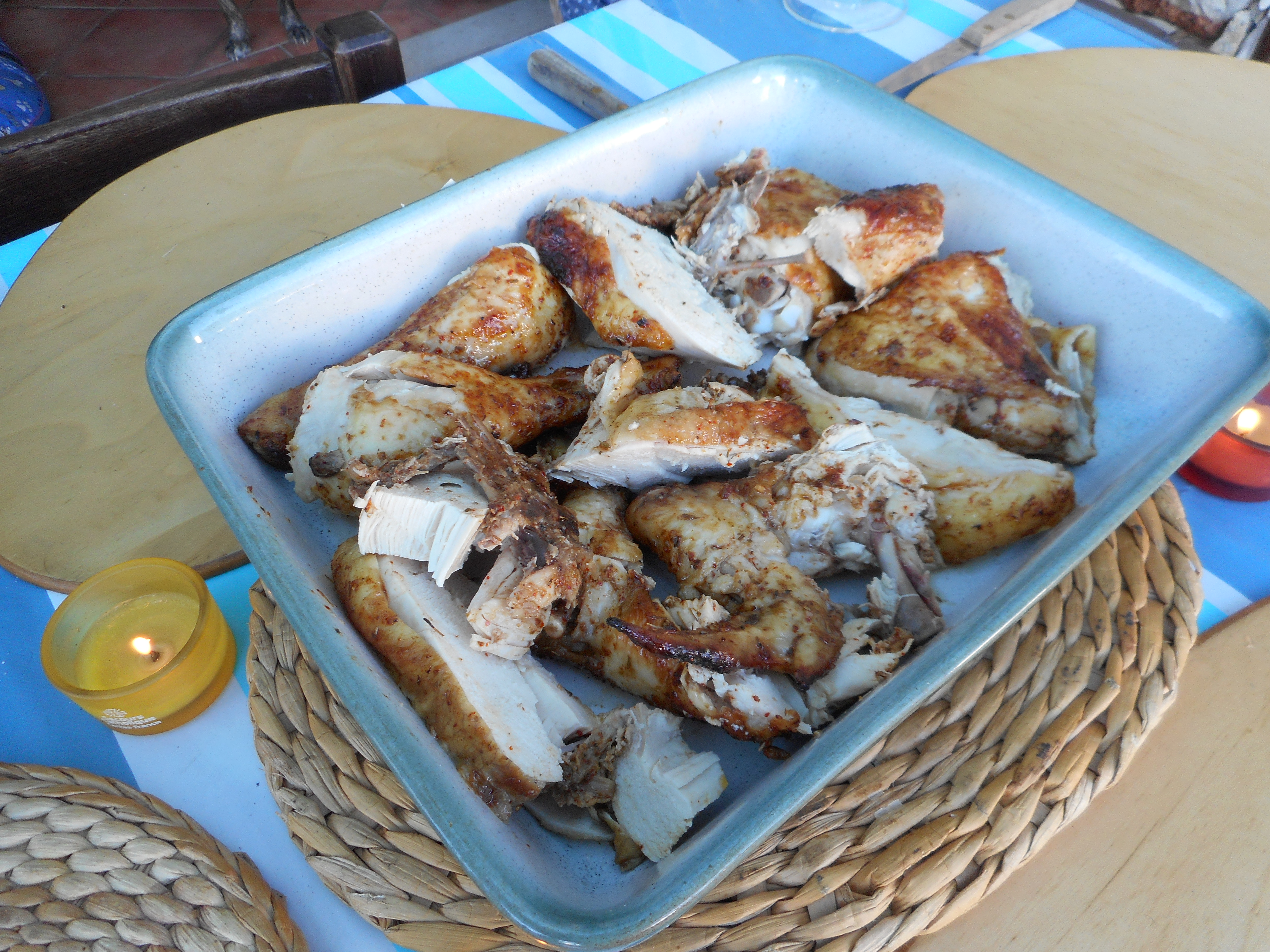 Chicken Piri piri (Frango Piri piri) is a Portuguese dish of barbecue chicken in which Piri piri peppers are sometimes used to flavour the bird usually in the form of a marinate. In Portugal, Frango Piri -piri churrasco is a common grilled chicken dish that is prepared at many churrascarias in the country. Portuguese churrasco and chicken dishes are very popular in countries with Portuguese communities, such as Canada, Australia, the United States, United Kingdom, Venezuela and South Africa.